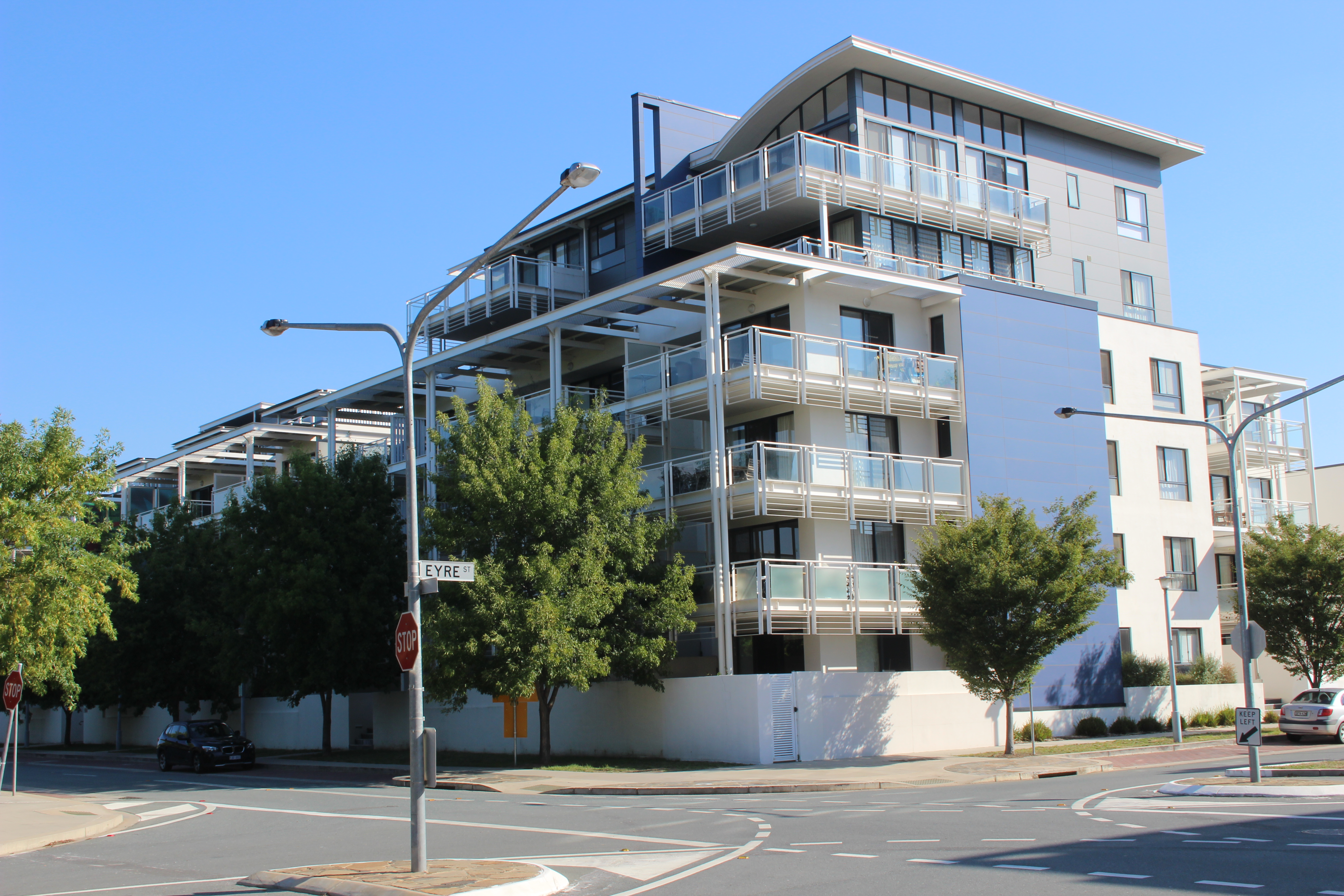 Kingston Foreshores